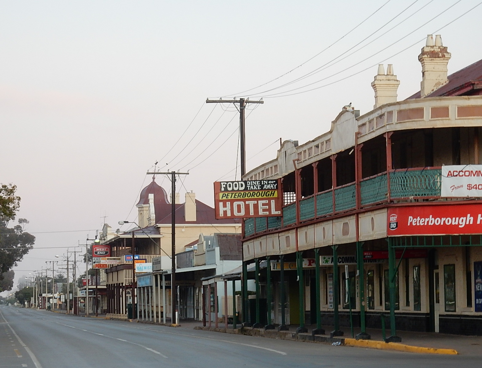 Peterborough Main Street in the early Morning